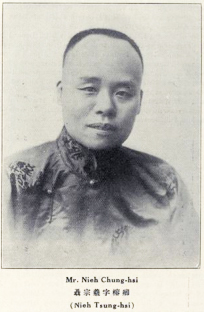 Nie Zongxi (1877-?)